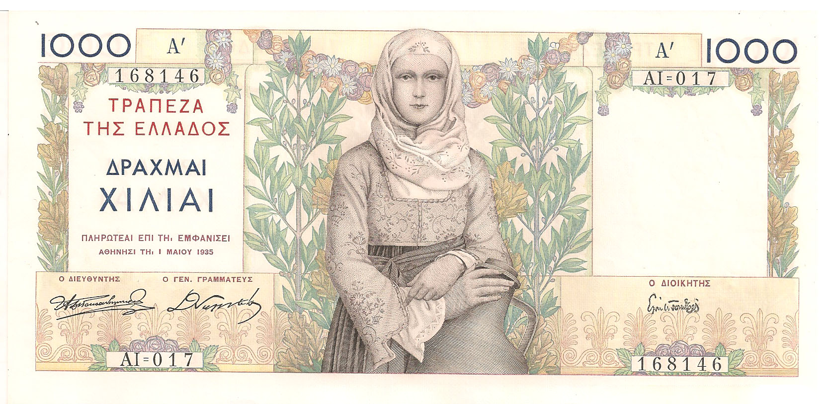 A 1,000 Drachmae note from 1935, the first series to be printed by the Bank of Greece and not the National Bank of Greece.